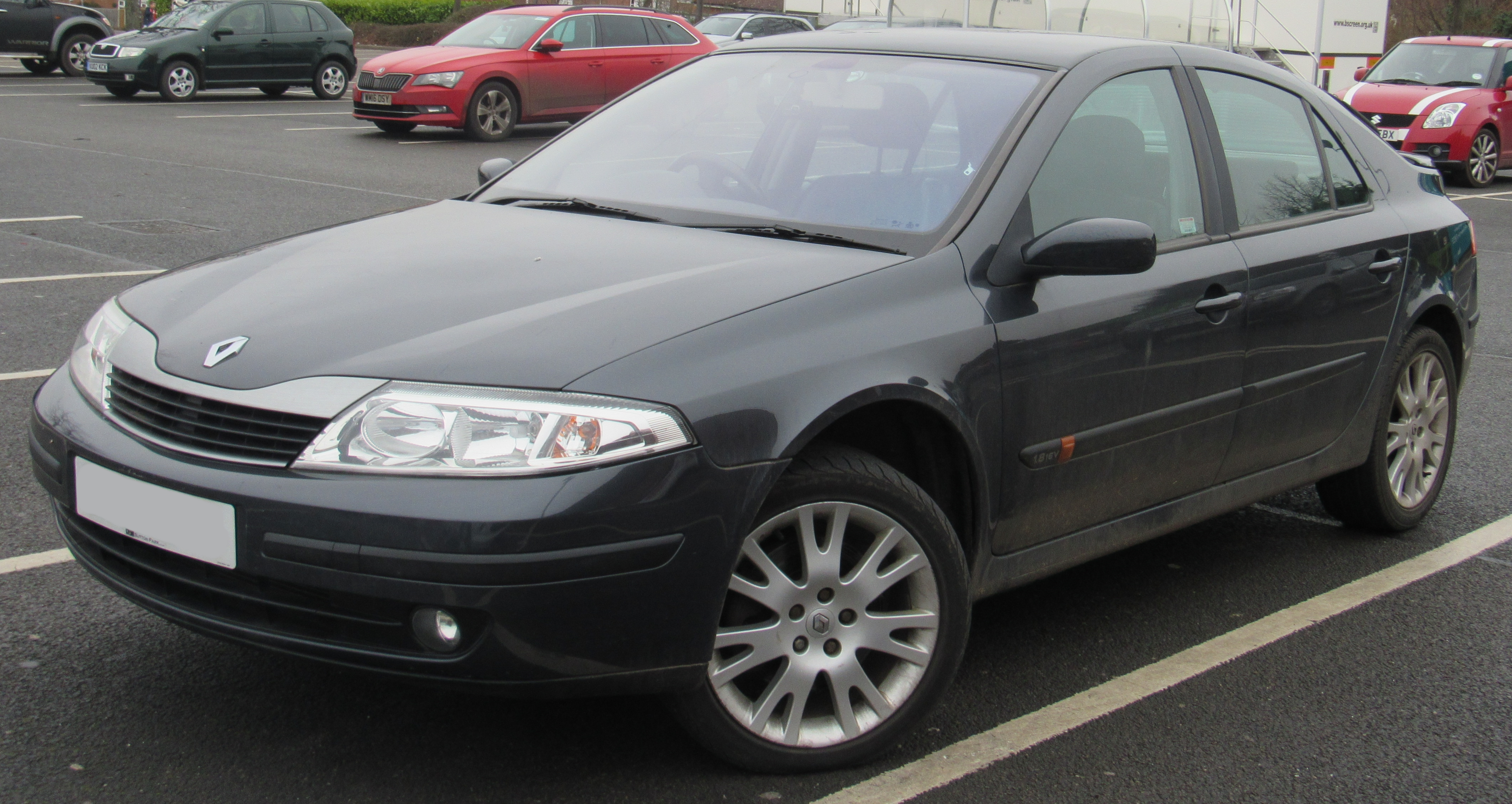 2002 Renault Laguna Dynamique 1.8 Front Taken in Leamington Spa